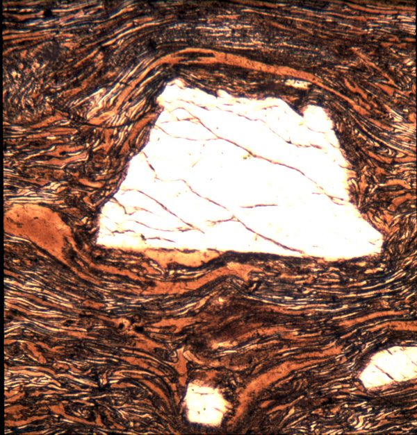 Microscope image of part of a thin section of an ignimbrite (welded tuff) showing shards (mostly brown glass) deformed during flow and compaction about crystal fragments (clear). Long dimension several mm. (New Mexico)